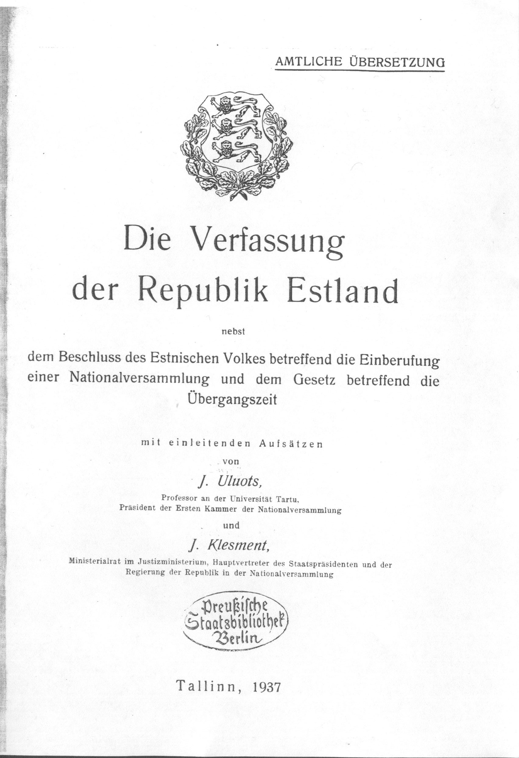 This is a scan of the historical document